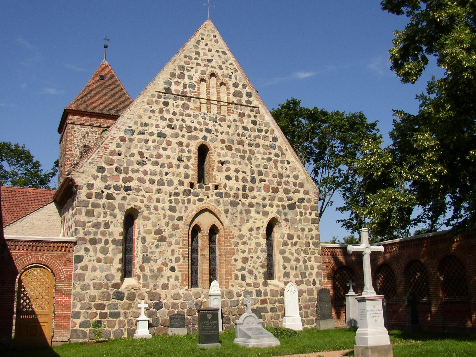 Cemetery of the Familiy von Quast in Neuruppin-Radensleben in Brandenburg, Germany